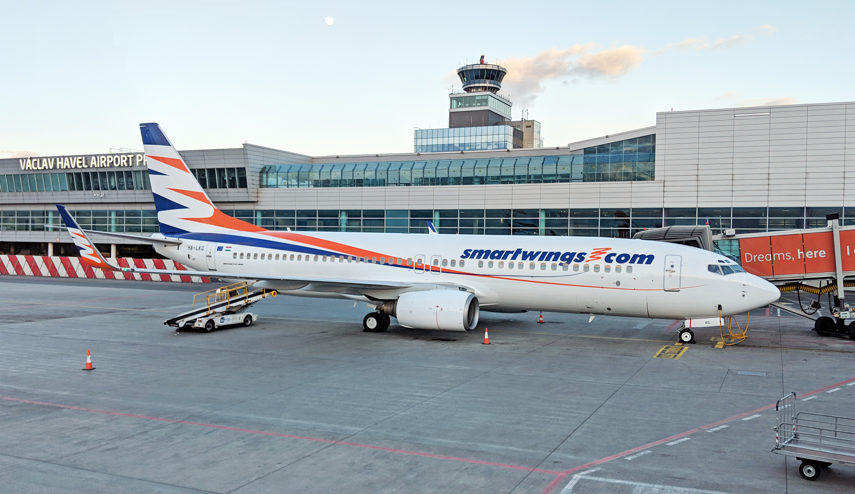 HA-LKG at Prague Airport